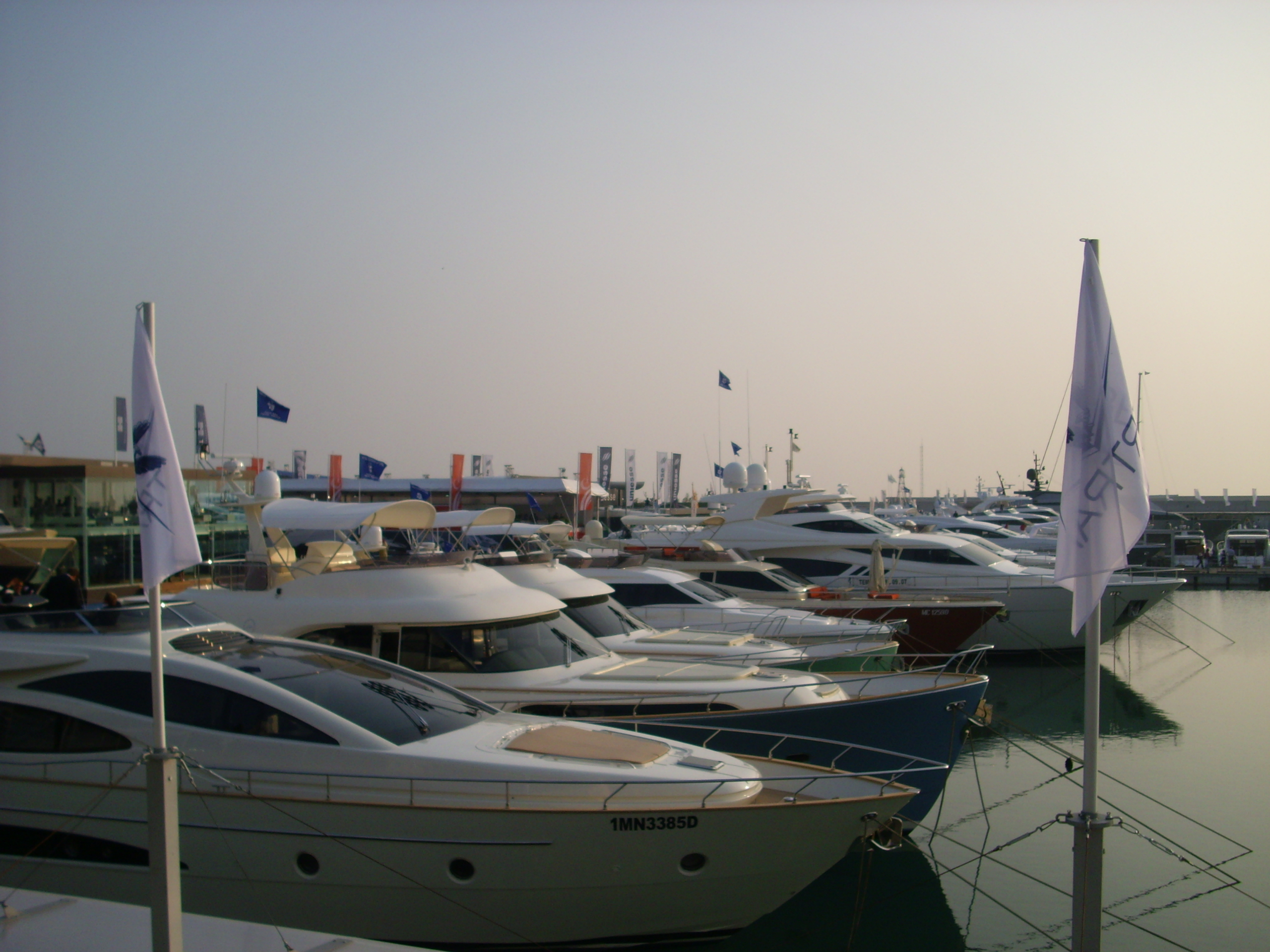 47 international boat exibition, Genova, Italy